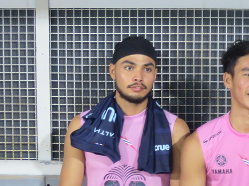 Naruphon Putsorn